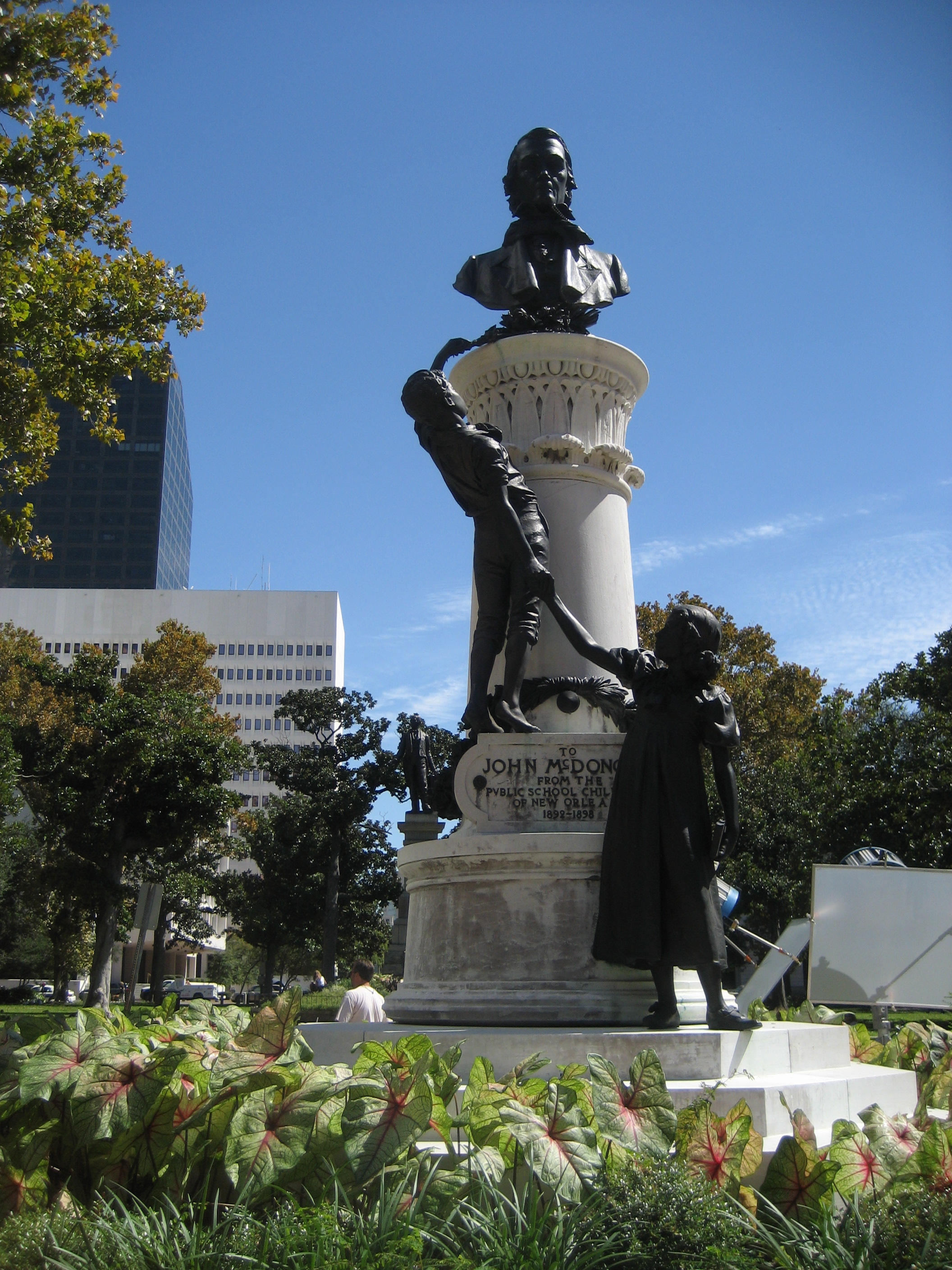 Lafayette Square, New Orleans. Memorial to John McDonough, who left money to build schools in the 19th century.